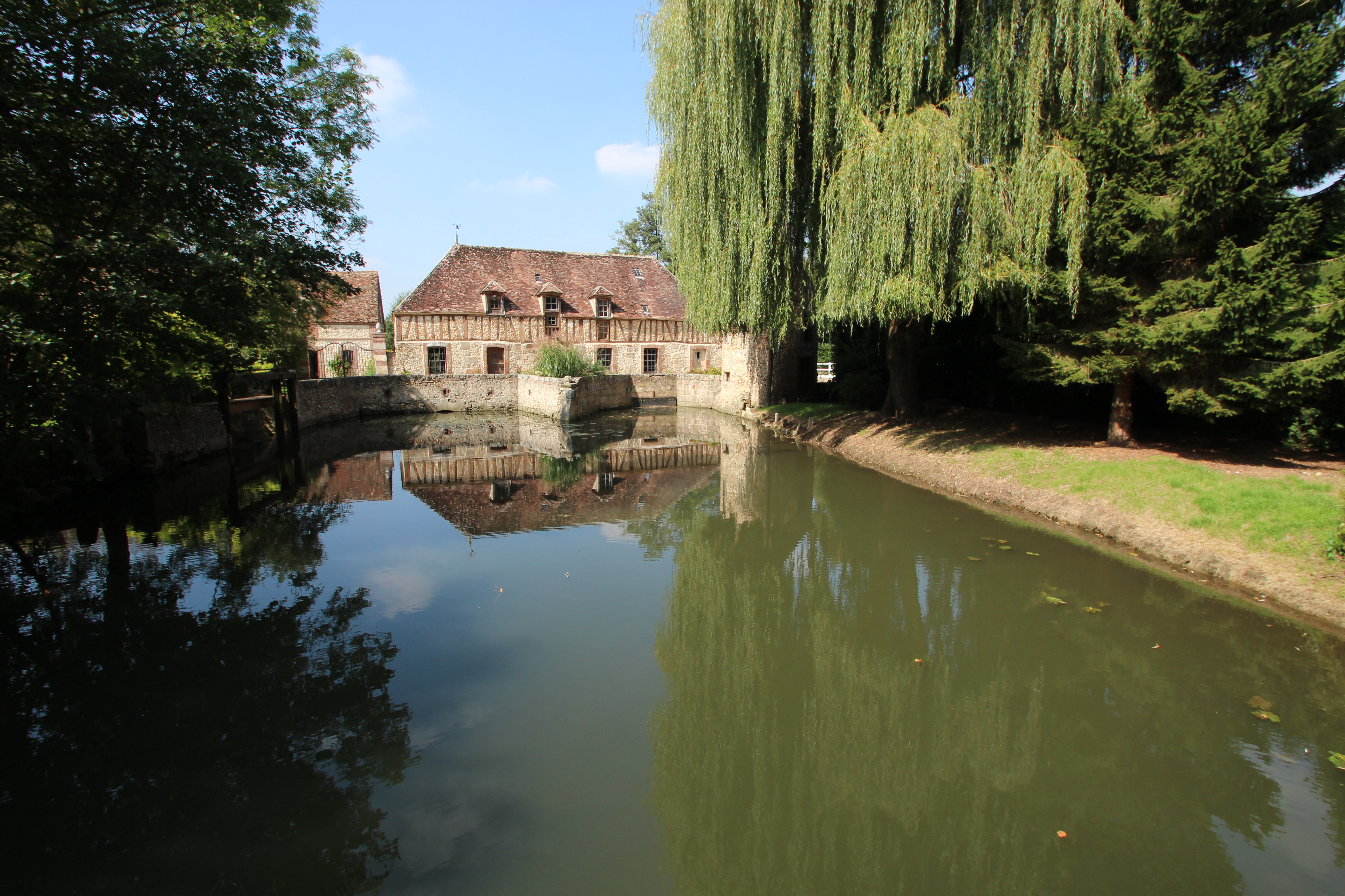 Mormoulins mill in Chaudon, France. . Object location48° 40′ 10.11″ N, 1° 29′ 53.7″ E